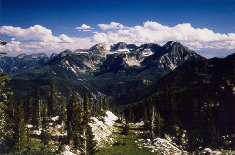 View of Mt. Timpanogos, Utah as seen from Silver Glance Lake in American Fork Canyon.